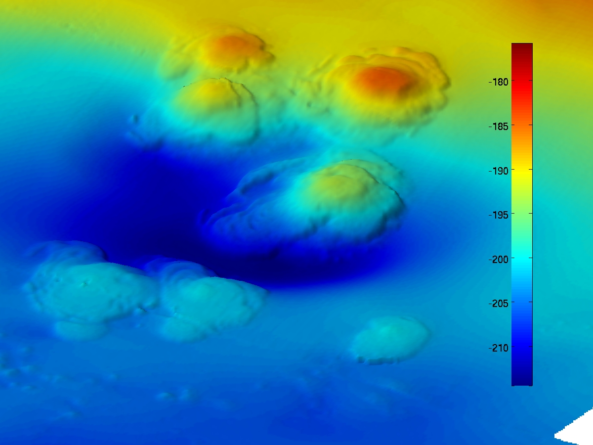 Bathymetry of seven extinct asphalt volcanoes on the floor of the Pacific Ocean, about 10 miles off the coast near Santa Barbara, California, USA. Collected using the autonomous underwater vehicle Sentry. Scale is in meters. Water depth is about 700 feet. The volcanoes were formed about 35,000 years ago.